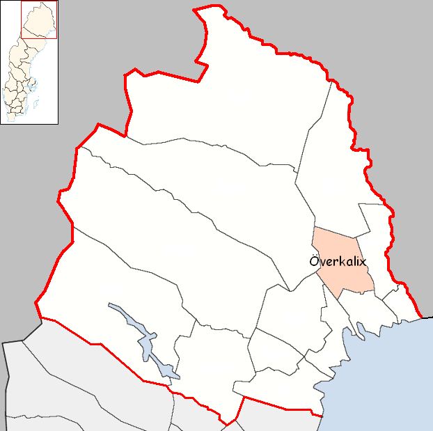 Överkalix Municipality in Norrbotten County Designed by me. Mere outlines are a PD source from